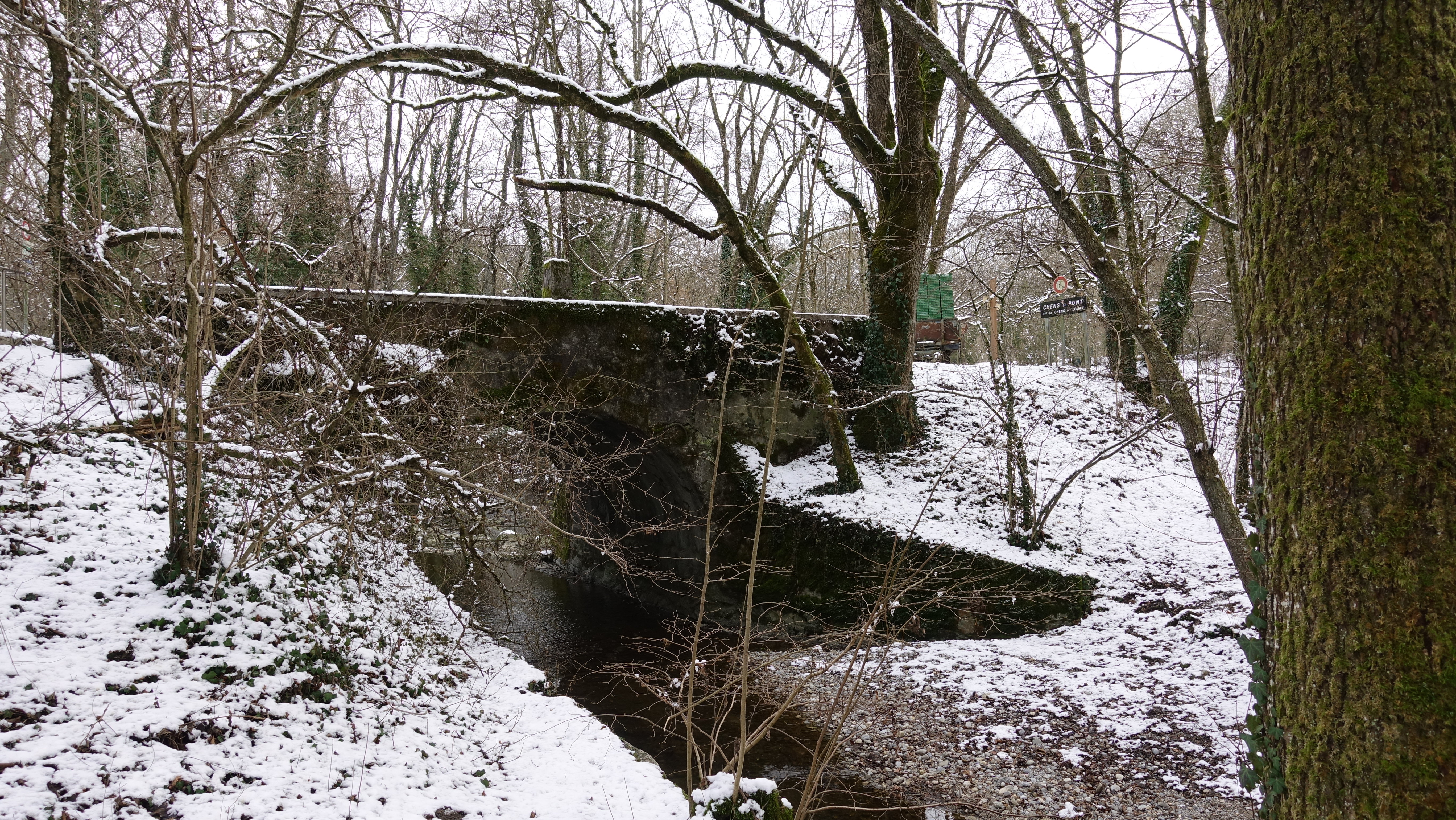 Pont de Bouringe, une lettre "G"